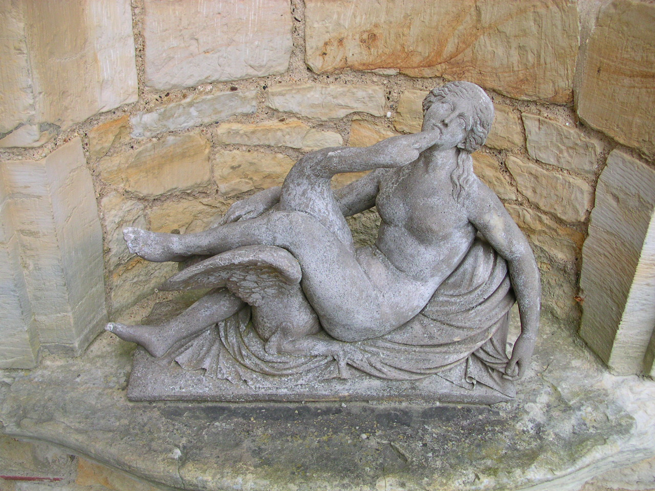 Statue of Leda and the swan at Hever Castle, Kent, England.